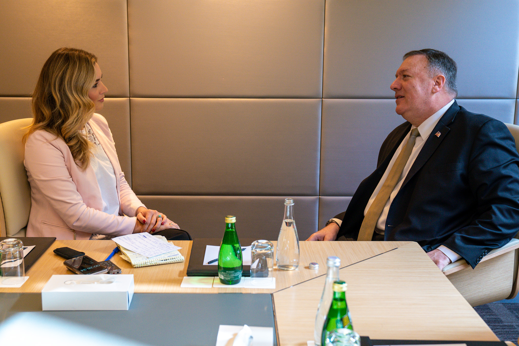 Secretary of State Michael R. Pompeo participates in an Interview with Katie Pavlich from Townhall in Riyadh, Saudi Arabia, on February 21, 2020. [State Department Photo by Ron Przysucha/ Public Domain]